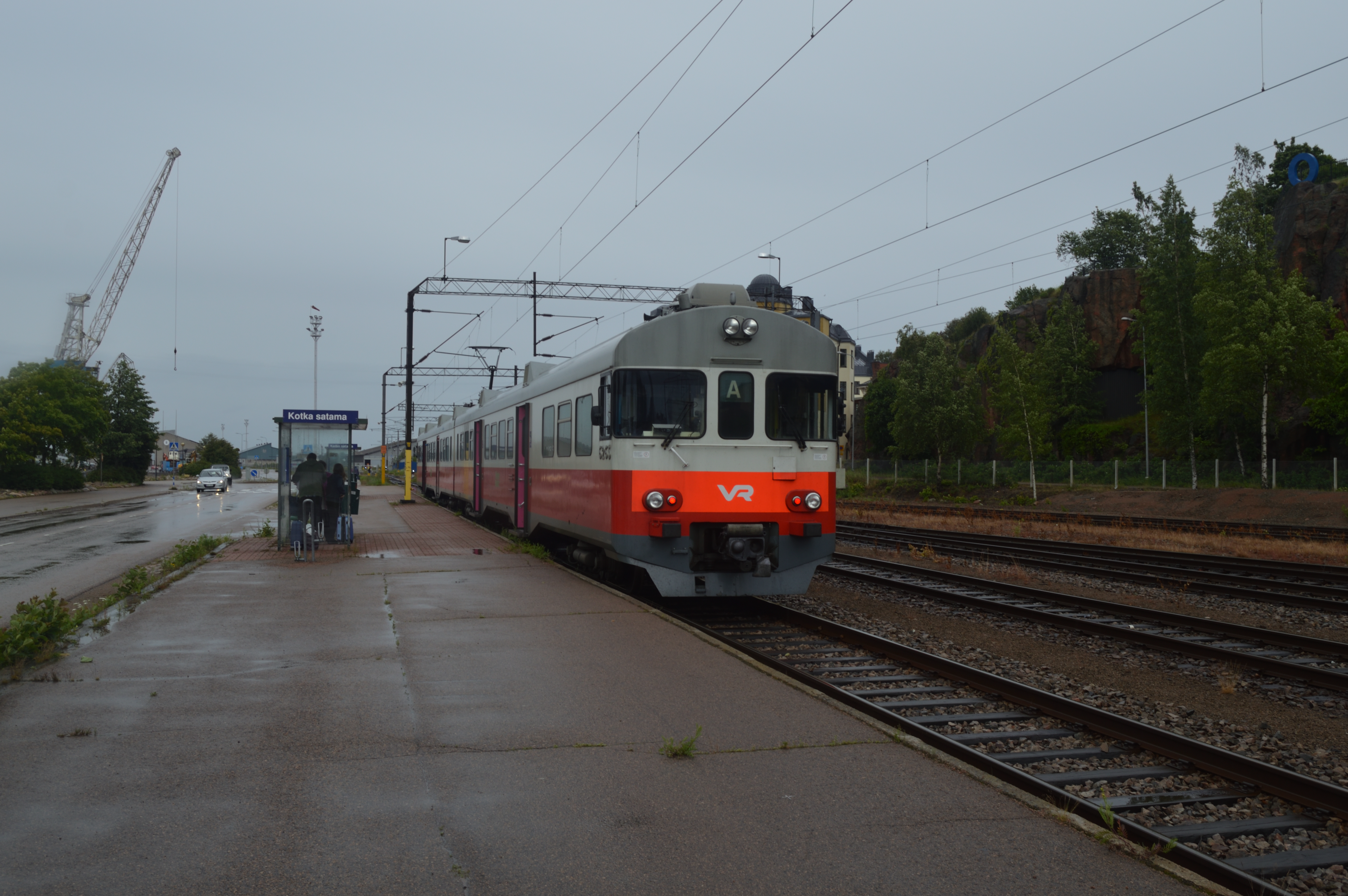 Sm2 6065 at Kotkan satama station during a quick turnaround on 5 July 2016. Train H357, 16:30 Kotkan satama to Kouvola. Note the station sign displays Kotka satama, the station is officially listed as Kotkan satama on website journey planners etc.